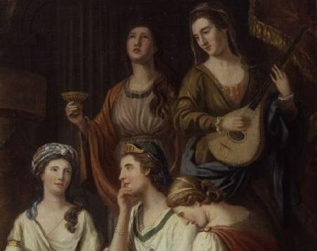 Portraits in the Characters of the Muses in the Temple of Apollo - left to right, Catharine Macaulay (seated), Elizabeth Montagu (née Robinson, seated), Elizabeth Griffith (seated), Hannah More (standing), Charlotte Lennox (née Ramsay, standing)